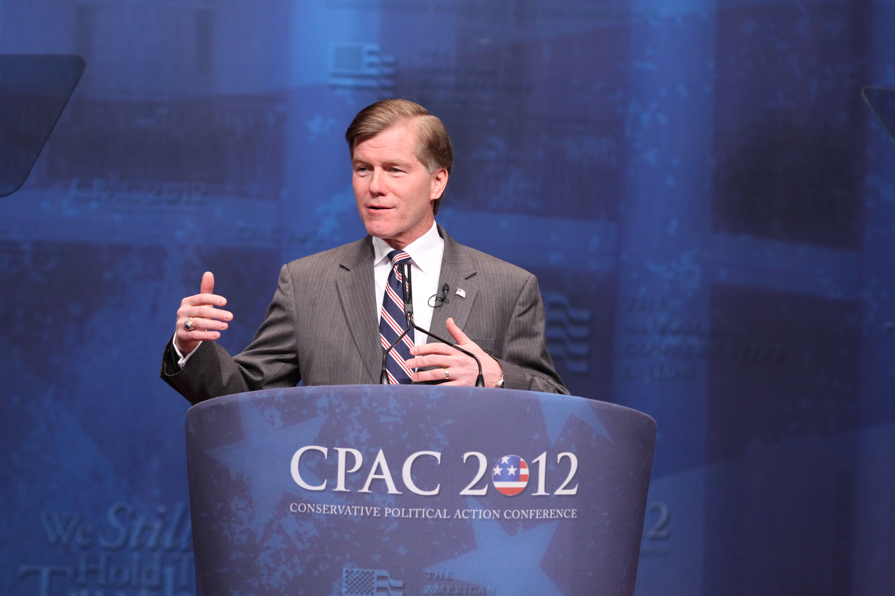 Unedited photos, I will edit and upload these and MORE. I have over 3000 photos... I also have Obama photos from INSIDE the White House Press Room.